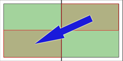 Zones of proper serving while playing doubles in table tennis